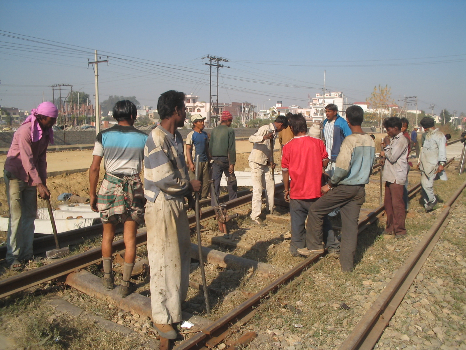 Workforce, Indian Railways Track Maintenance, Dec 2007, in Jalandhar, Punjab, India. The leftmost man is wearing a rumal, or kerchief on his head; next to him is a man in a checked dhoti. The rest are wearing trousers and shirts/sweaters.